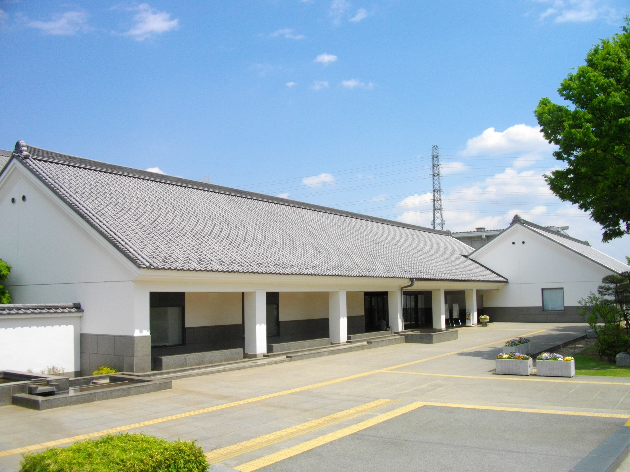 Kawagoe City Museum in Kawagoe, Saitama